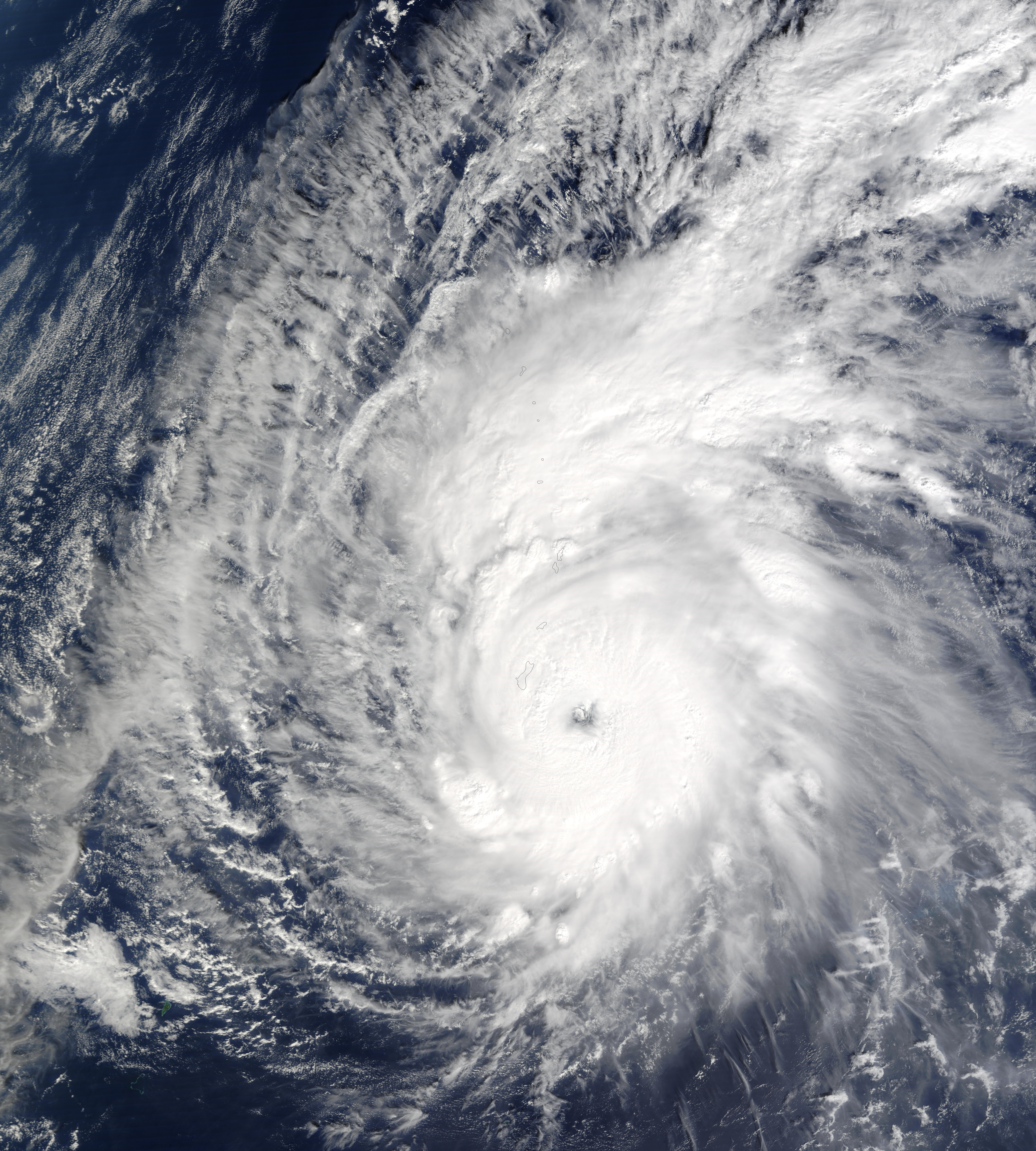 At the time this image was acquired on December 8, 2002, Super Typhoon Pongsona was at its peak strength — Category 4 — with winds of 120 knots (1 knot = 1.15 mph). The image shows Pongsona over the Northern Mariana Islands in the western Pacific Ocean, just south of the Tropic of Cancer, and about 1500 kilometers north of Papua New Guinea. Pongsona had dissipated four times before reaching Typhoon level, and gained a level approximately every day, up to Category 4. However, the descent was quicker. By late on the 9th, Pongsona began losing power, and by the 11th had dropped to the lowest level, Category 1, with winds of 75 knots. After this, it dissipated for good.